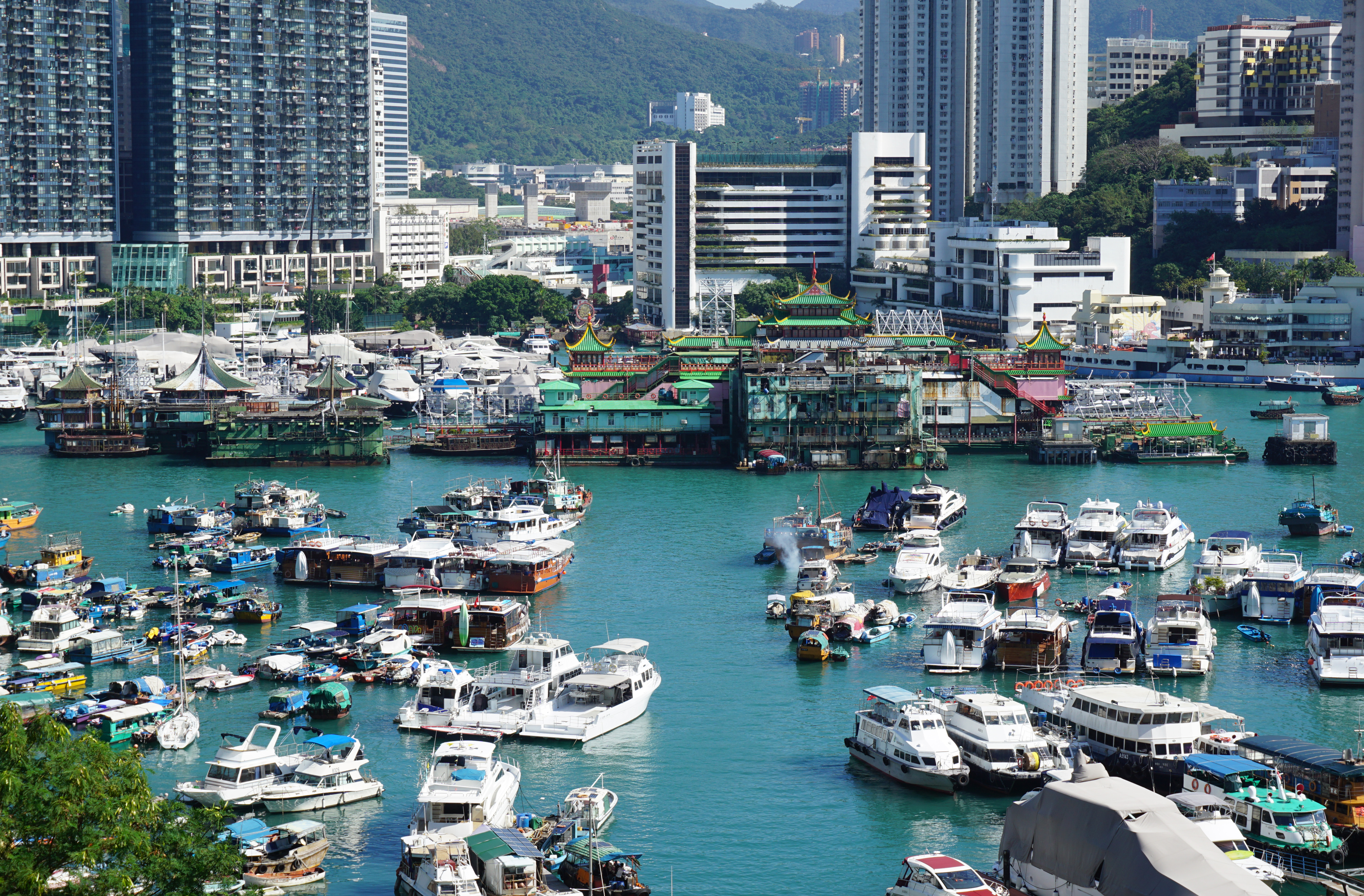 Jumbo Kingdom in Sham Wan, Hong Kong.